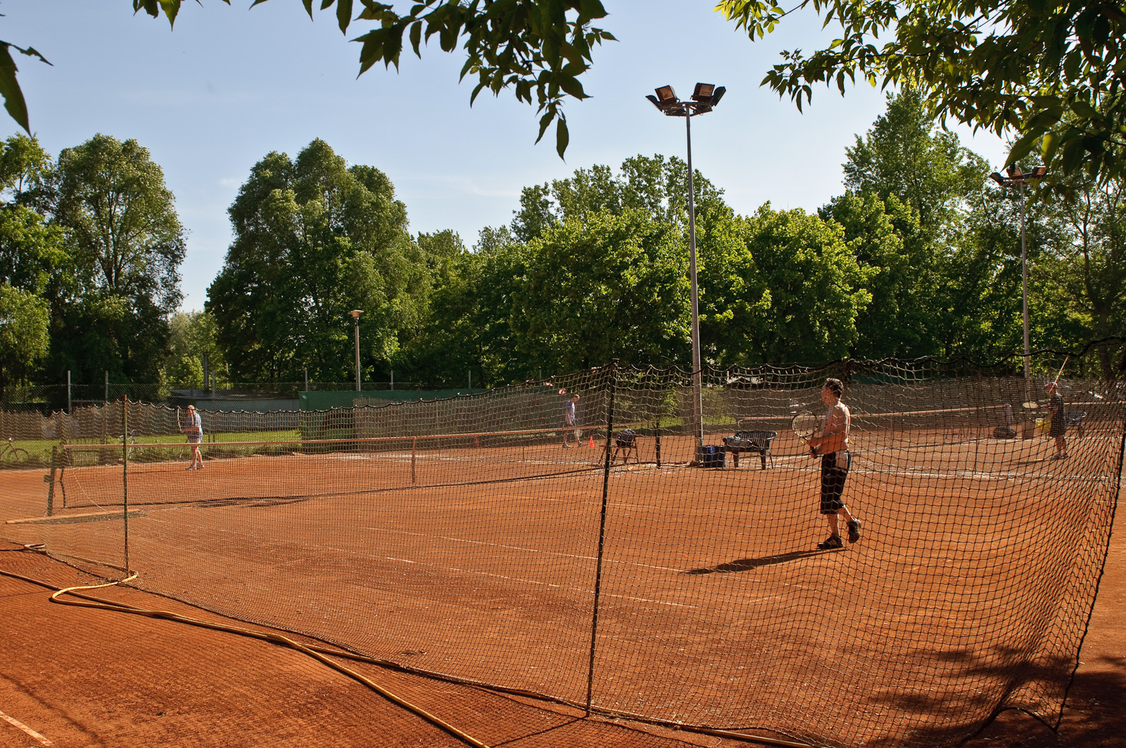 Tennis courts at Spojnia Sports Club, Warsaw Poland